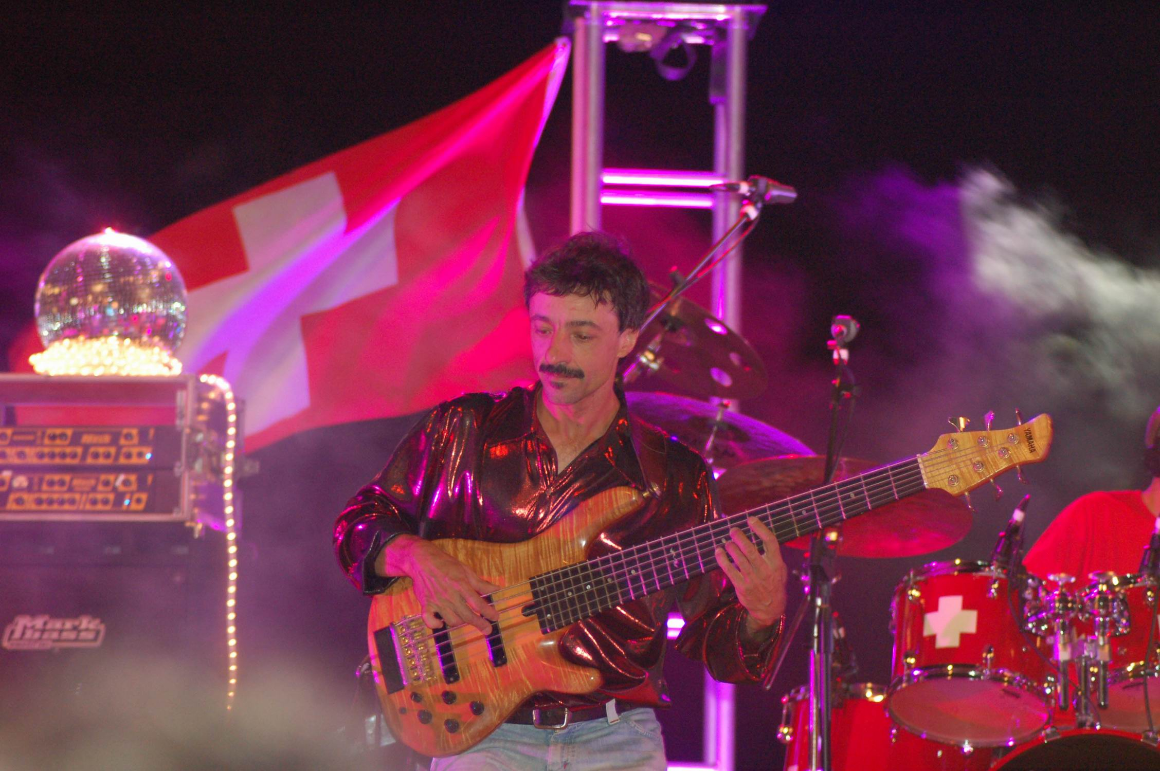 Italian bass guitarist Nicola Riccardo Fasani, aka Faso, playing a 6-string Yamaha Patitucci bass on stage for his group, the comedy rock band Elio e le Storie Tese